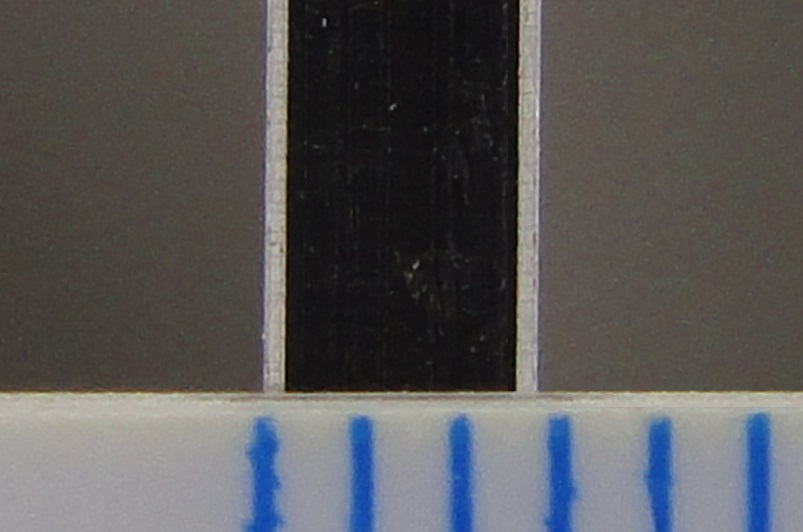 Side view of an Aluminium composite panel (ACP), also known as Dibond, about 2.7 mm in thickness. Retouching. Layers from left to right: 1) White coating layer (very thin, perhaps coil coated) 2) Aluminium sheet (silvery, back) 3) Polyethylene core material (Brown) 4) Aluminium sheet (silvery, front) 5) White coating layer (very thin, perhaps coil coated)